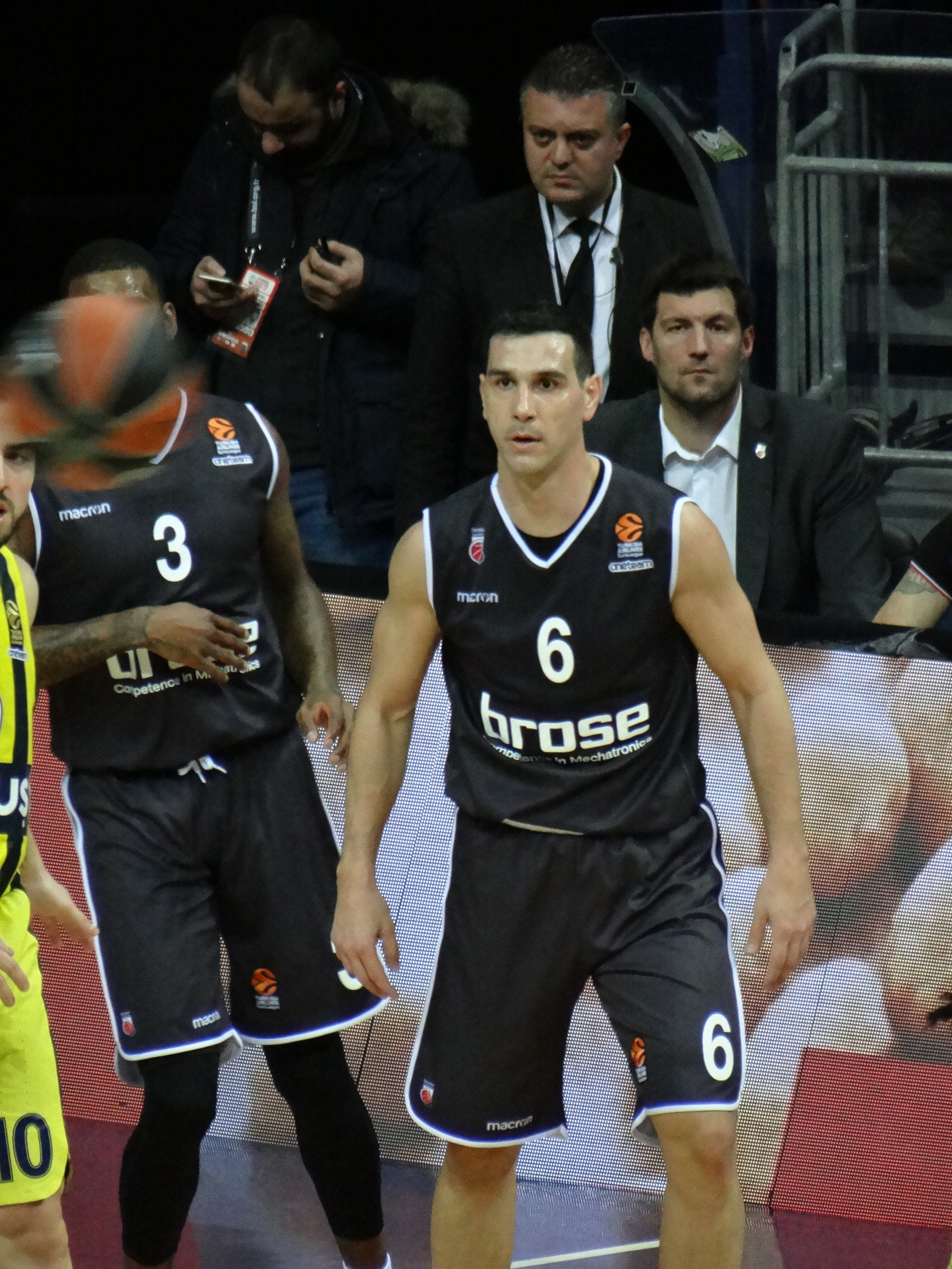 Nikos Zisis 6 Brose Bamberg EuroLeague 20180209